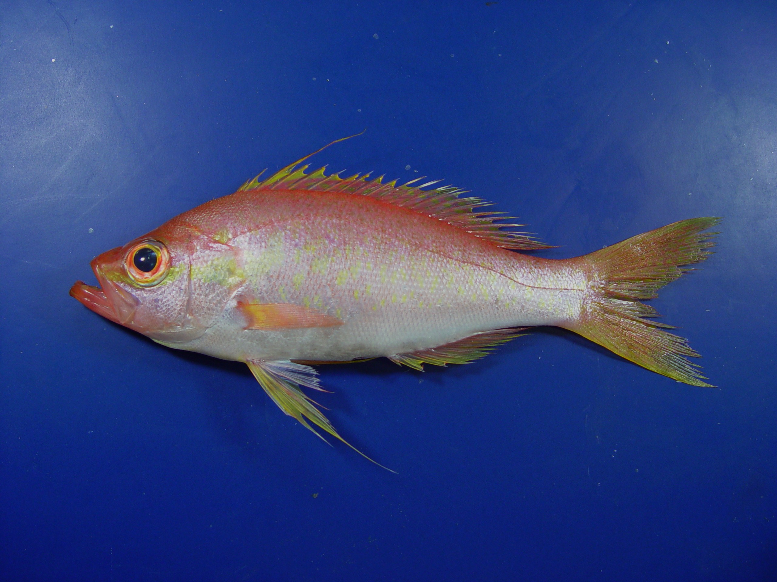 Longtail bass ( Hemanthias leptus ). Gulf of Mexico.